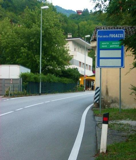 The italian road SS 46 near Rovereto